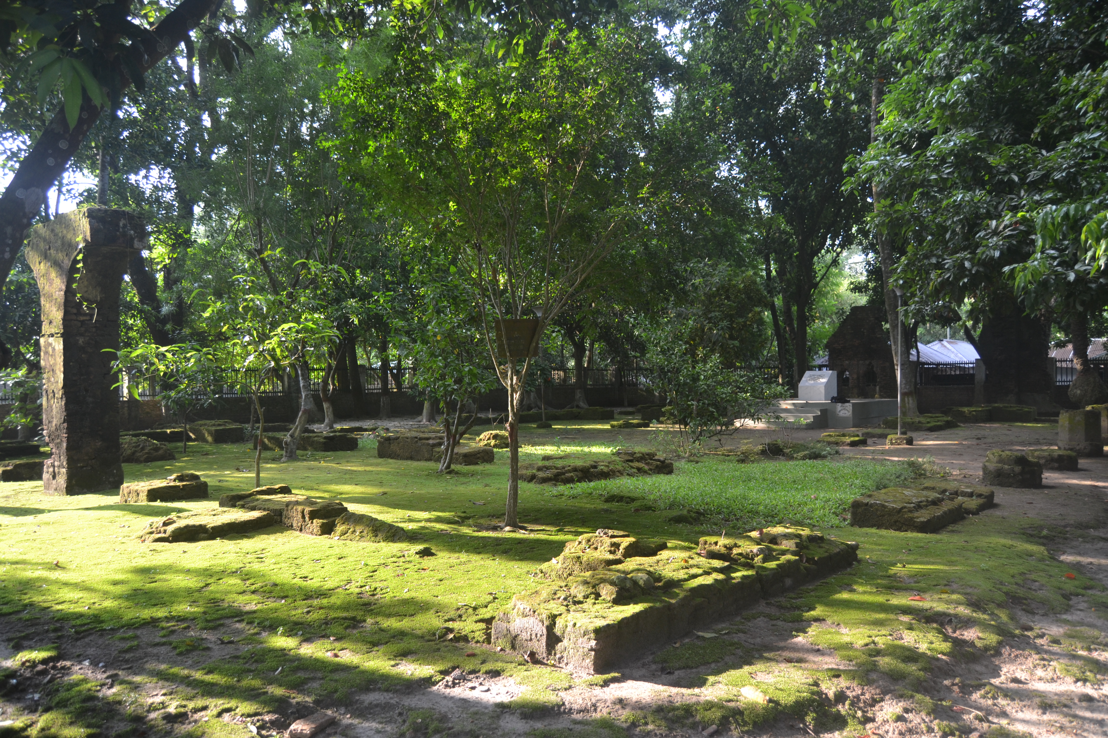 House of Begum Rokeya (remaining)